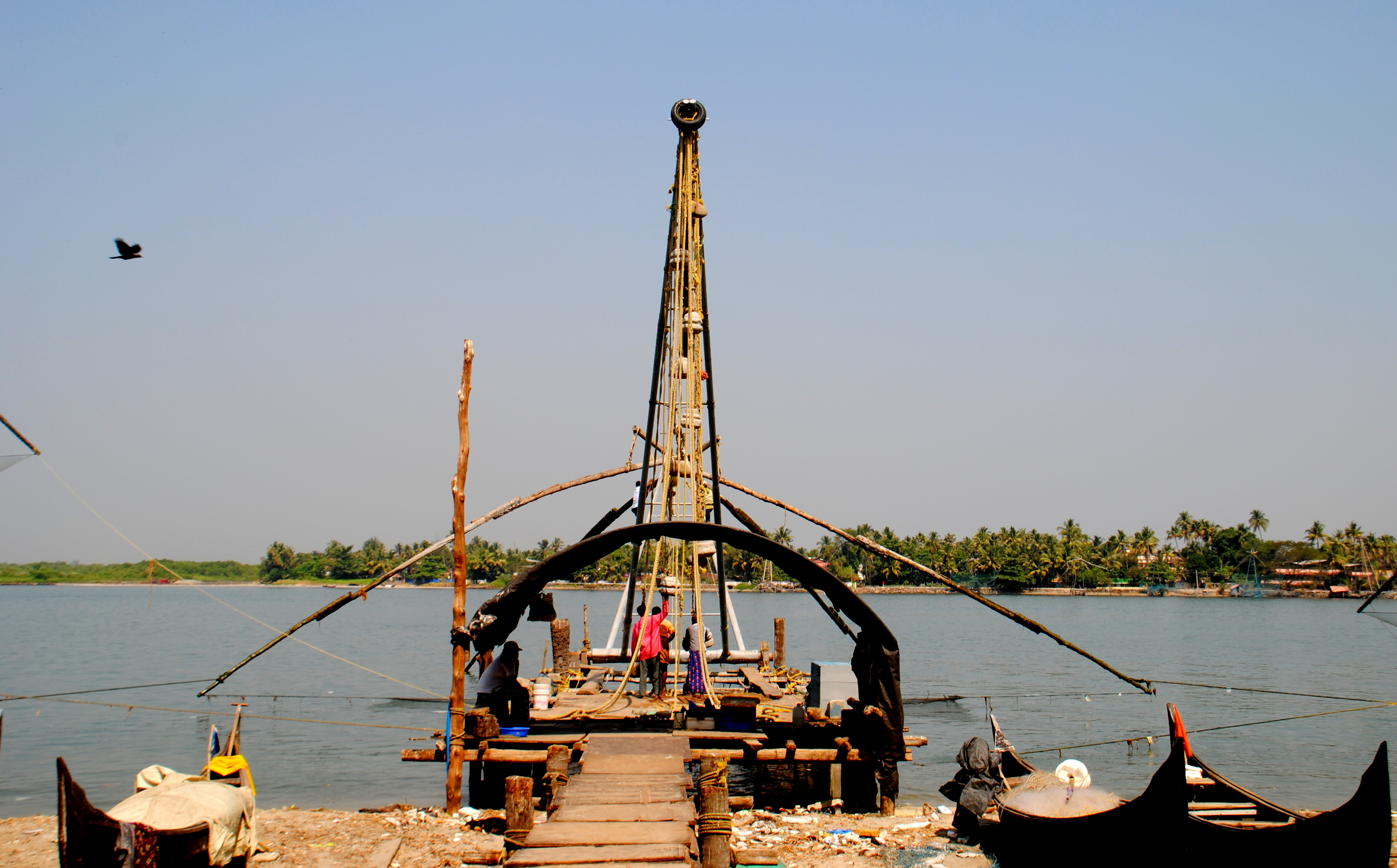 a common Fort Cochin view